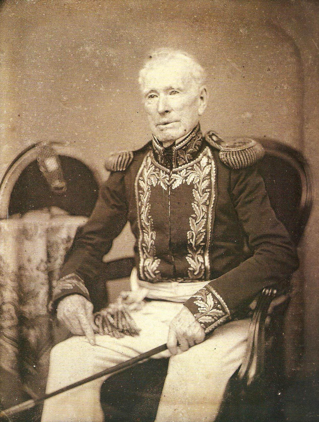 Daguerreotype of admiral William Brown during its last years. He is considered "the father" of Argentine Navy.